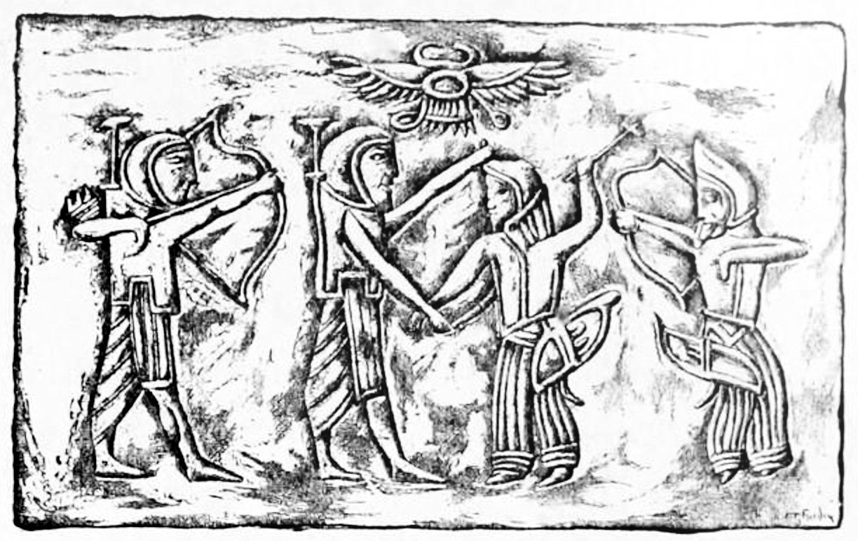 Achaemenids fighting against Scythians